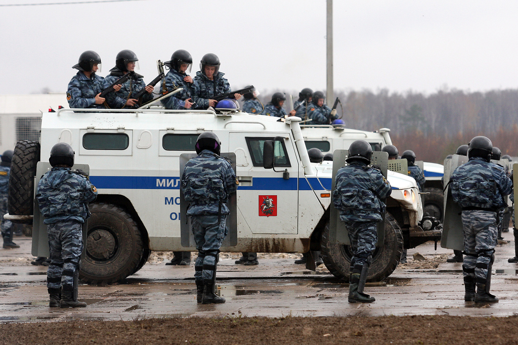 Moscow OMON GAZ-233034 SPM-1 vehicle during riot control training on Interpolitex-2009 exhibition